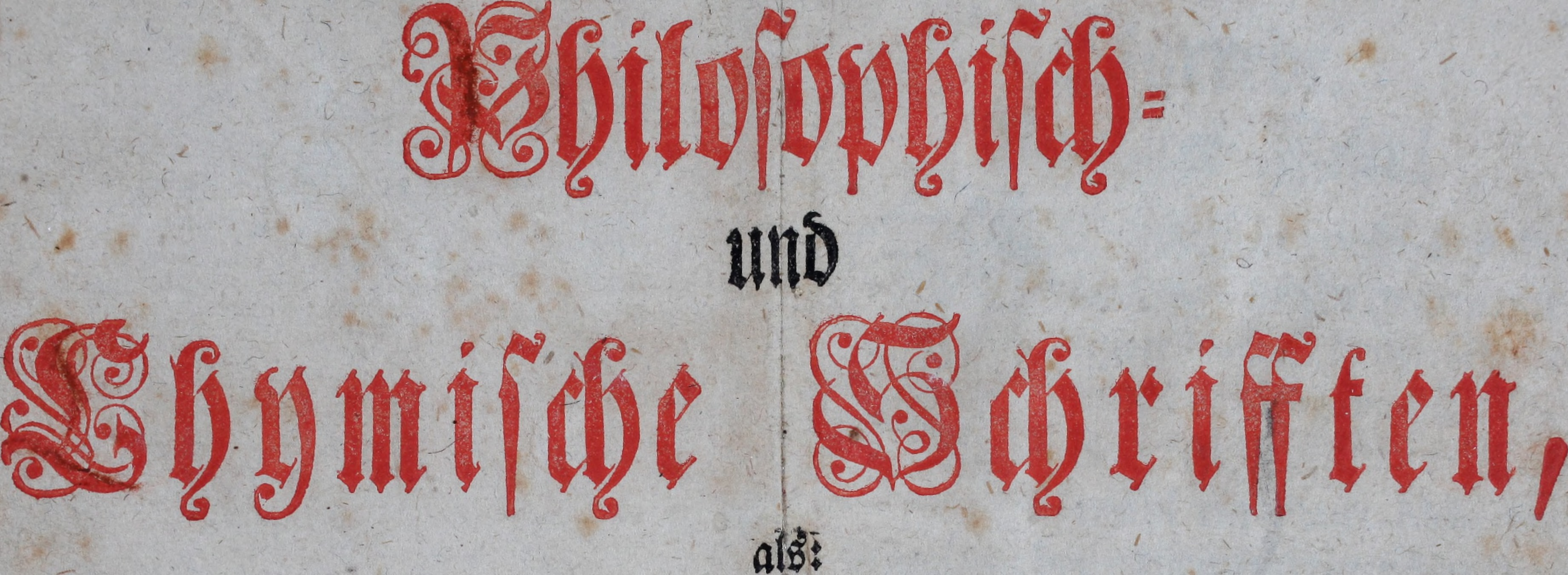 Title: Sinceri Renati Sämtliche Philosophisch- und Chymische Schrifften, als: I. Die wahrhaffte und vollkommene Bereitung des Philosophischen Steins, &c. II. Theo-Philosophia Theoretico-Practica, oder der wahre Grund Göttlicher und natürlicher Erkänntniss &c. III. Goldene Qvelle der Natur und Kunst, bestehend in lauter Experimentis und chymischen Handgriffen &c Year: 1741 (1740s) Authors: S. R. (Samuel Richter) Subjects: Alchemy Rosicrucians Alchemy Mysticism Publisher: Leipzig und Bresslau : Verlegts Michael Hubert Text Appearing Before Image: ' Text Appearing After Image: IL Theo-Philofophiä Theoretico-Praäica, ^UtUt t74i.sincerirenatismt00srsa